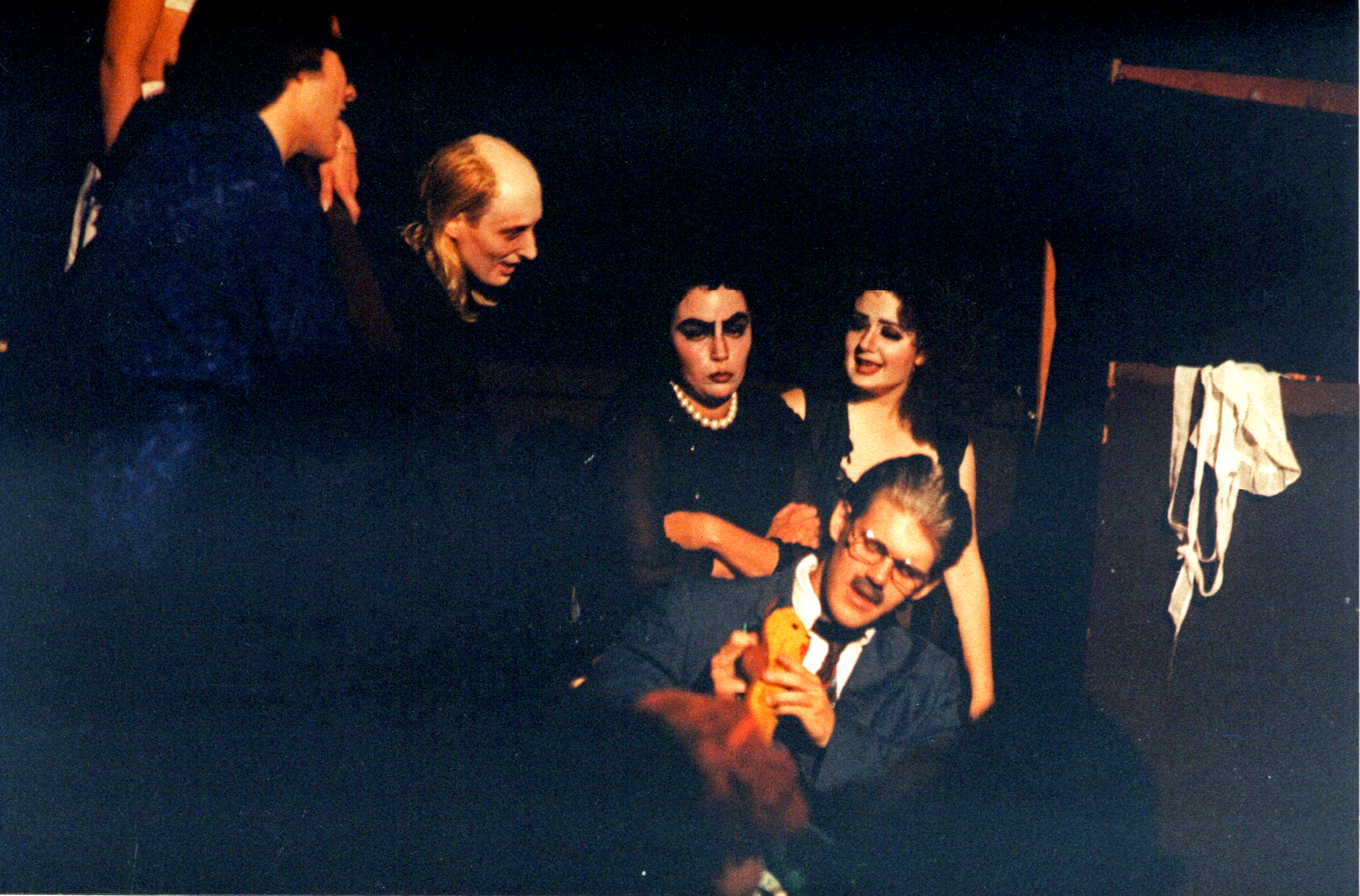 San Francisco's Strand Theatre Rocky Horror performance group regulars from 1979 Linda Woods as Riff Raff, Marni Scofidio as Frank N. Furter, Jim Curry as Dr. Scott and Denise Erickson as Magenta